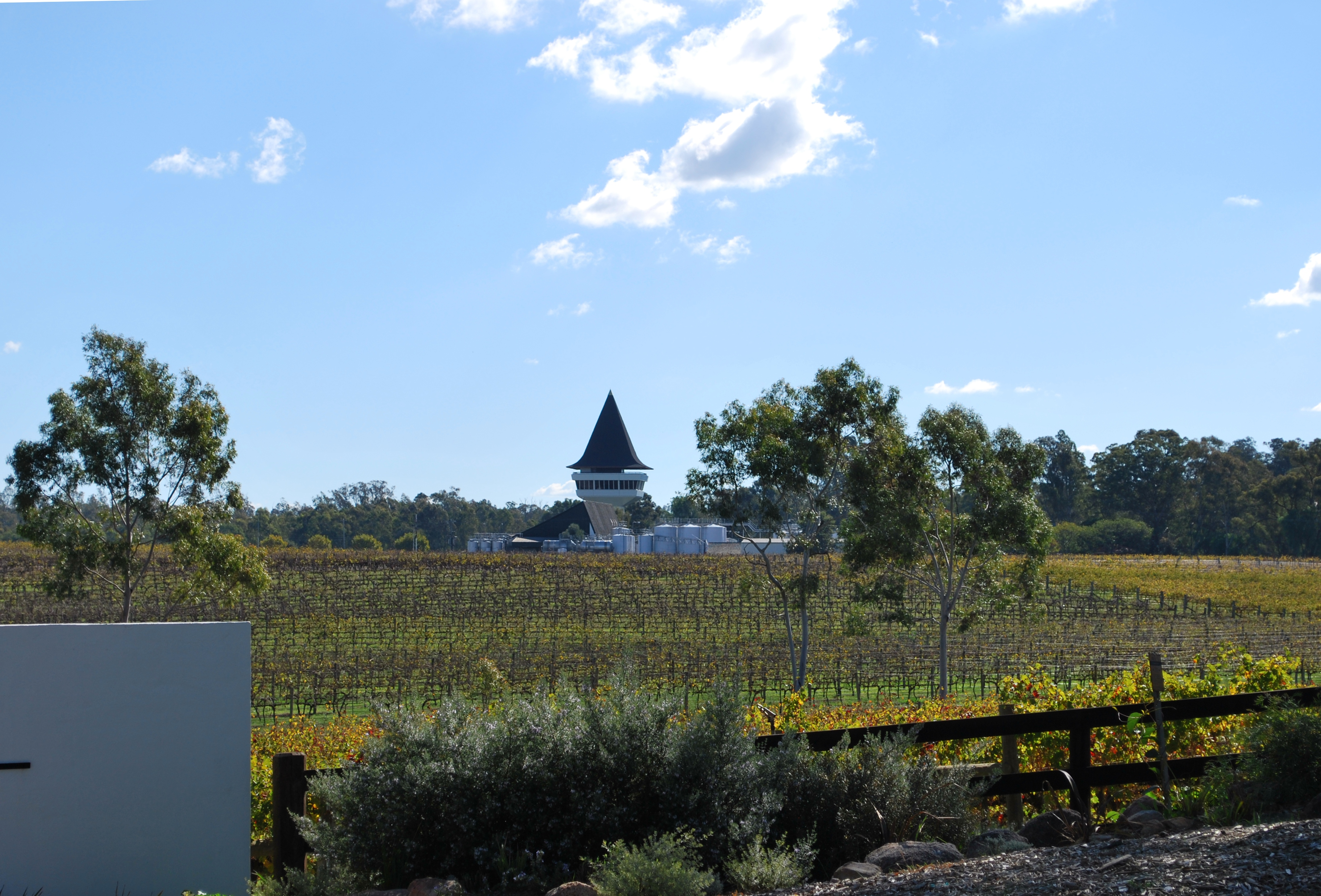 Mitchelton Winery at Mitchellstown, Victoria